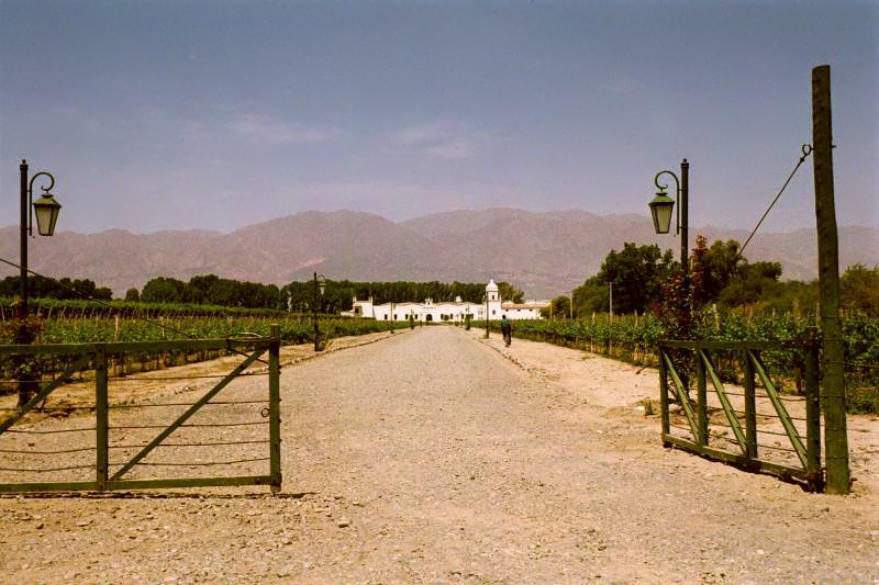 Cafayate, Salta Province, Argentina: Winery "de la Rosa" / "El Esteco"